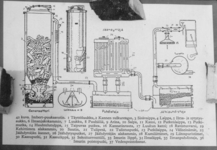 Schematic of a wood gas generator Photo, scan, upload MH 21:40, 21 April 2006 (UTC)